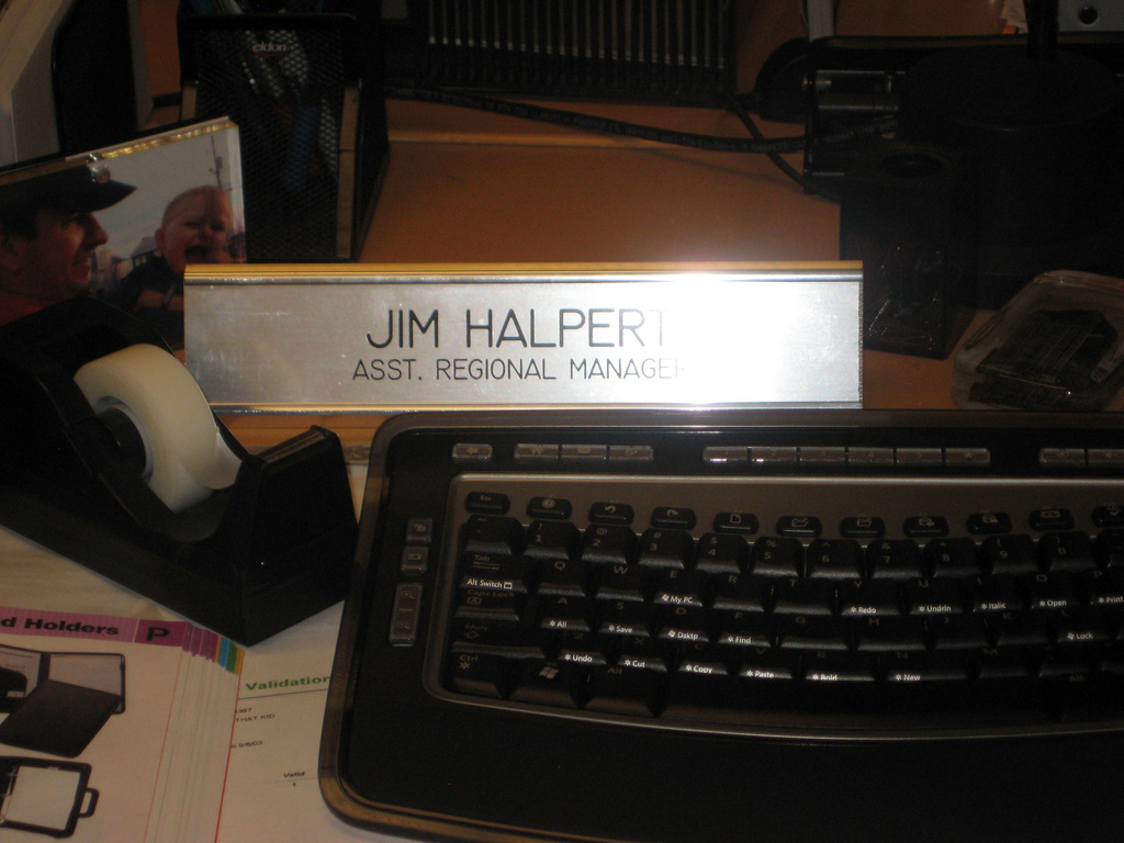 The Office set visit - Los Angeles, Calif. - Aug. 7, 2009